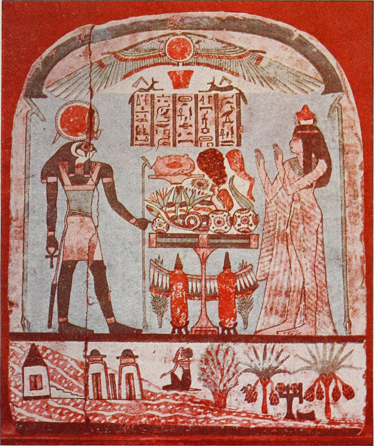 Title: Égypte Year: 1911 (1910s) Authors: Maspero, G. (Gaston), 1846-1916 Subjects: Art -- Egypt Egypt -- Antiquities Publisher: Paris : Hachette Text Appearing Before Image: FiG. Sig. — Bas-relief de Maharrakah.(Musée du Caire.) (Cliché E. Brugsch.) 276 Text Appearing After Image: Cliché Daumas. Paysage funéraire PEINT SUR LA STÈLE DE Zadthôtefônoukhou (Musée du Caire.) Planche IV. ESSAI DE PEINTURE PITTORESQUE